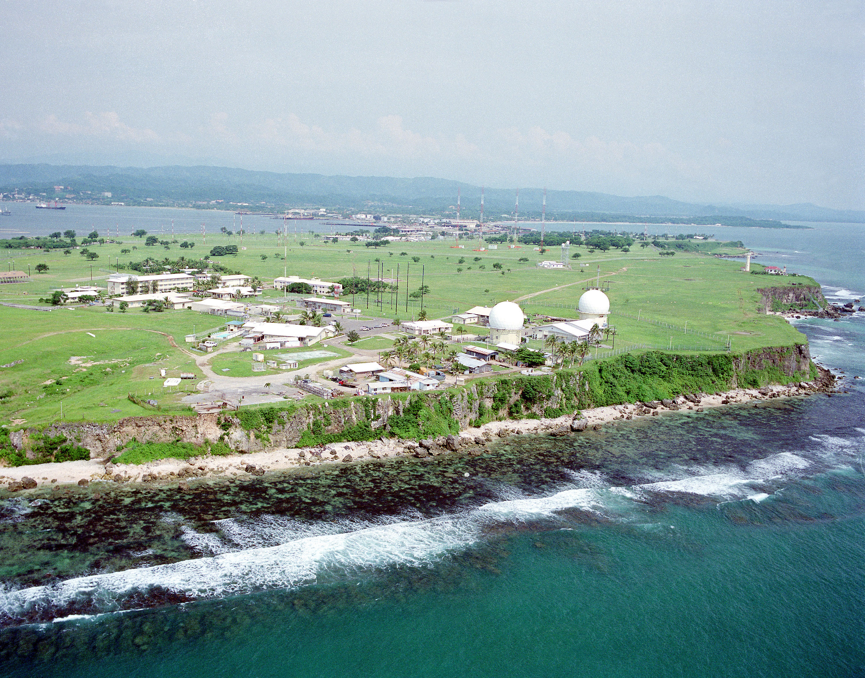 An aerial view of Wallace Air Station, a United States Air Force (USAF) facility located in San Fernando, La Union, Luzon Island, Philippines.